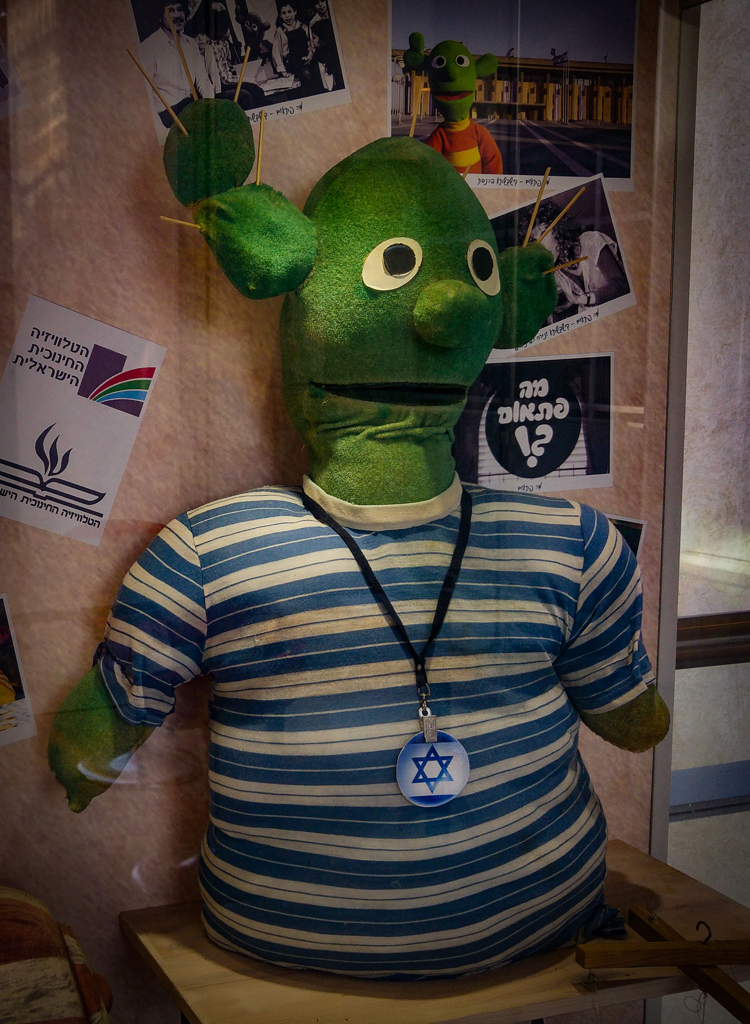 Kishkashta was the main character in one of the first Israeli Educational Television shows, Ma Pit'om. Photo taken in Interdisciplinary Center Herzliya School of communication.